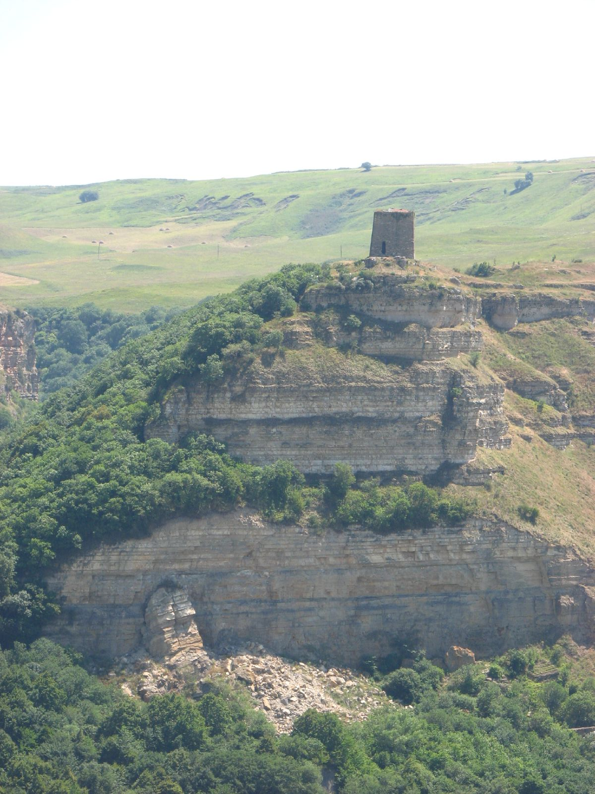 Adiyukh tower, Khabezsky District, Karachay-Cherkessia, Russian Federation